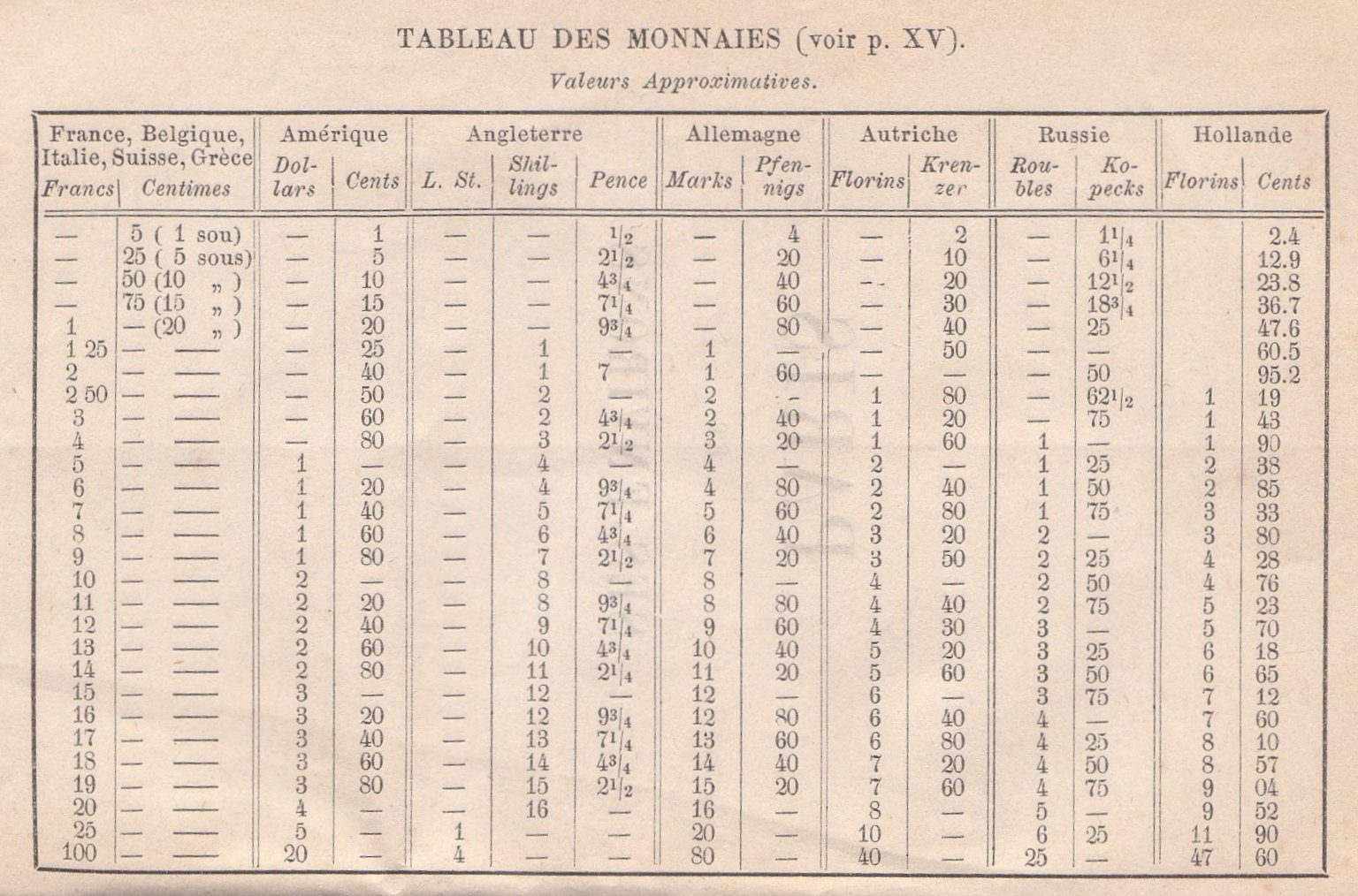 Tabular of exchange rates of currencies